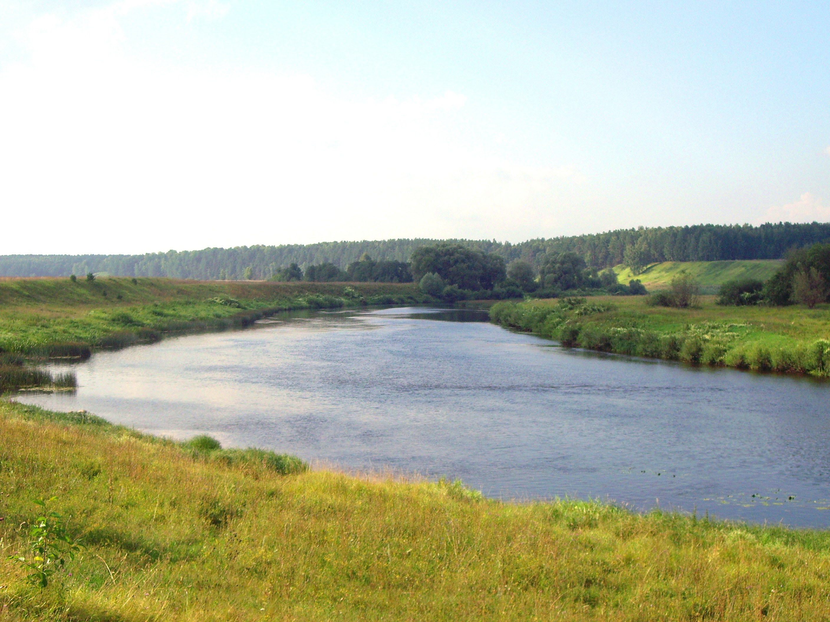 A picture of the river.